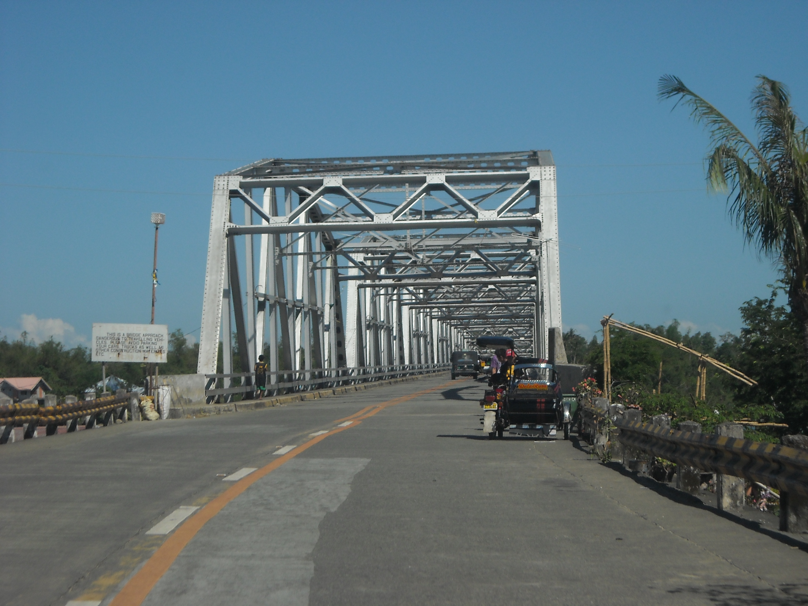 A view of the bridge to Anda, Pangasinan. I took this shot while riding a car.